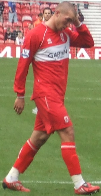 Didier Digard.